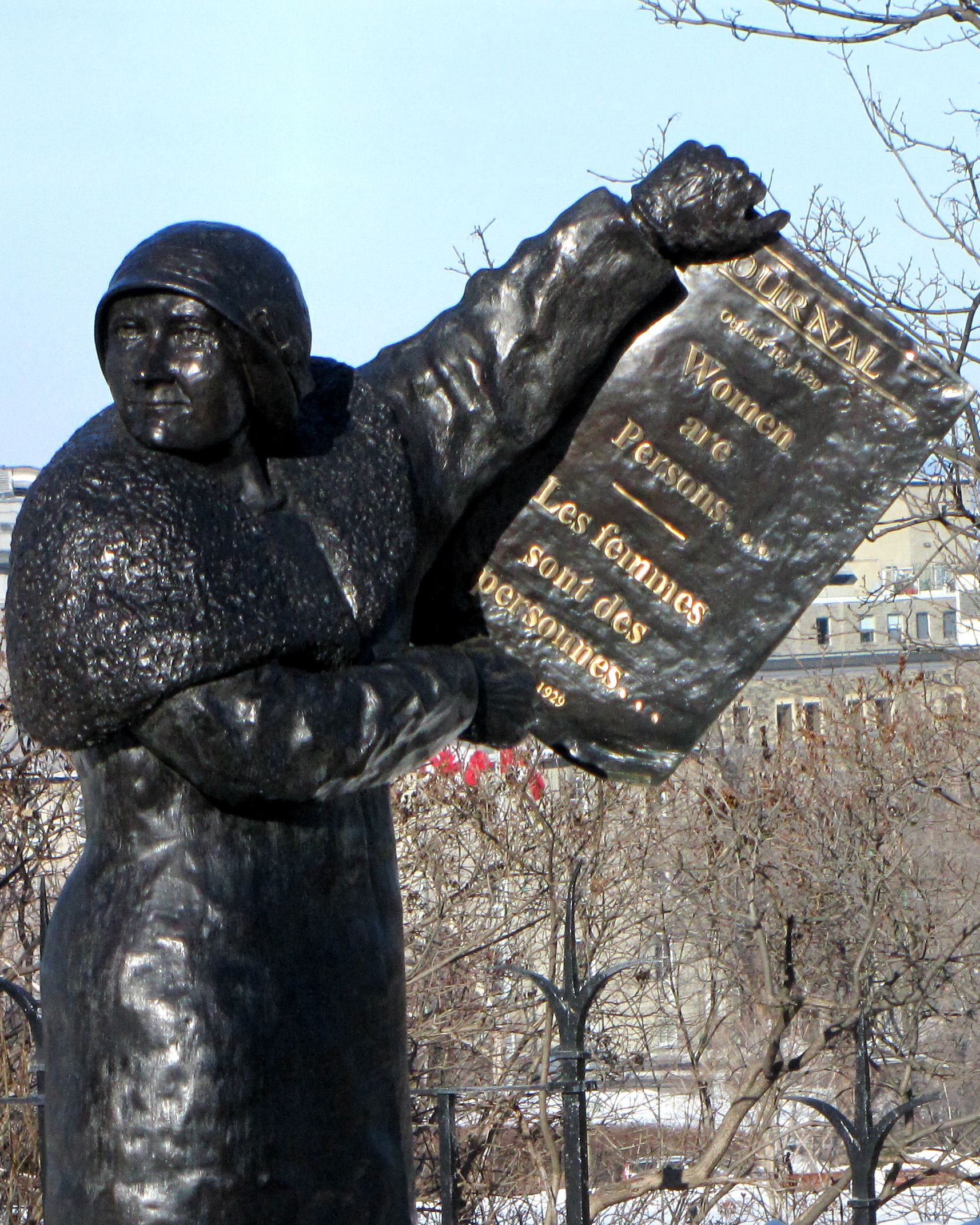 Nellie Mooney McClung holding headline about "Persons Case", Famous Five statue by Canadian artist Barbara Paterson, Parliament Hill, Ottawa, Ontario, Canada